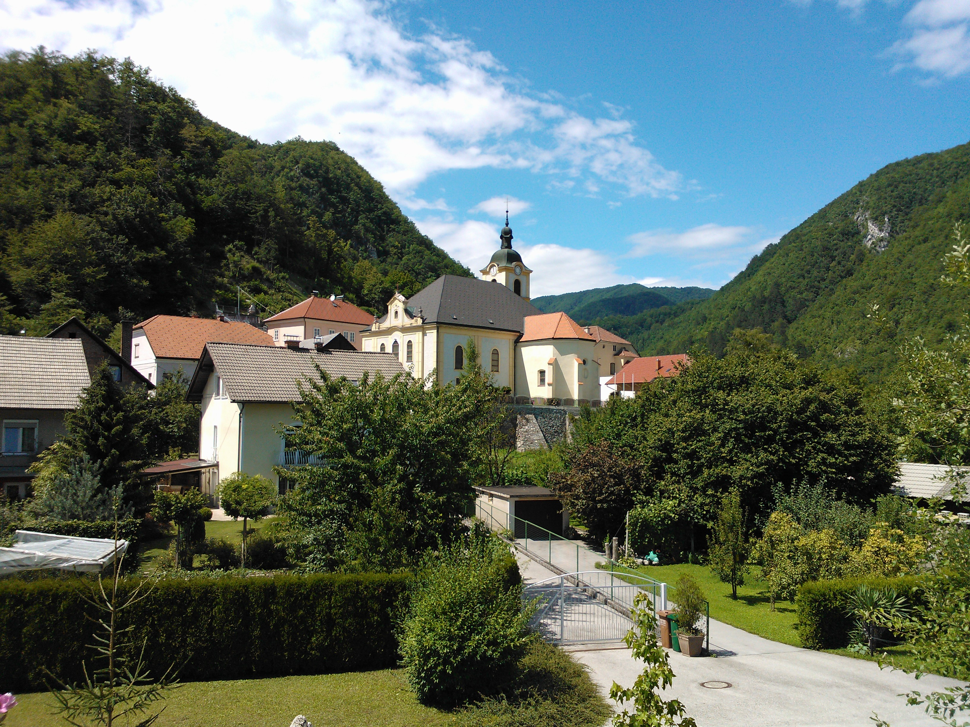 Radeče, Slovenija